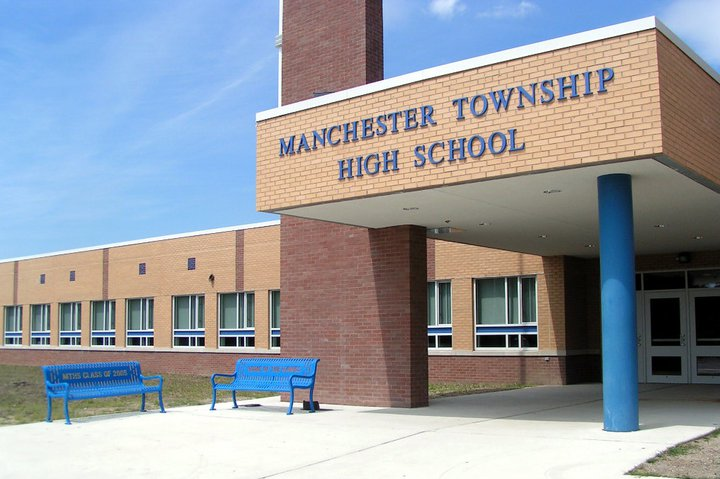 Front view of Manchester Twp. High School